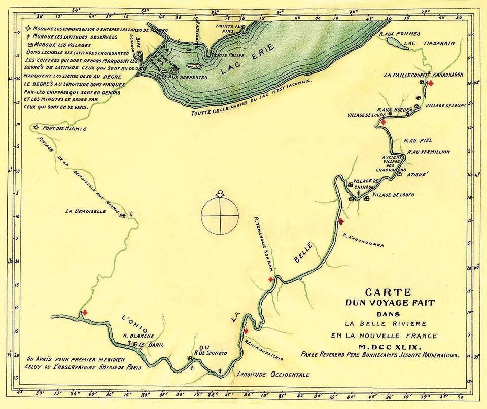 Father Bonnecamp's 1749 map showing where lead plates were buried.